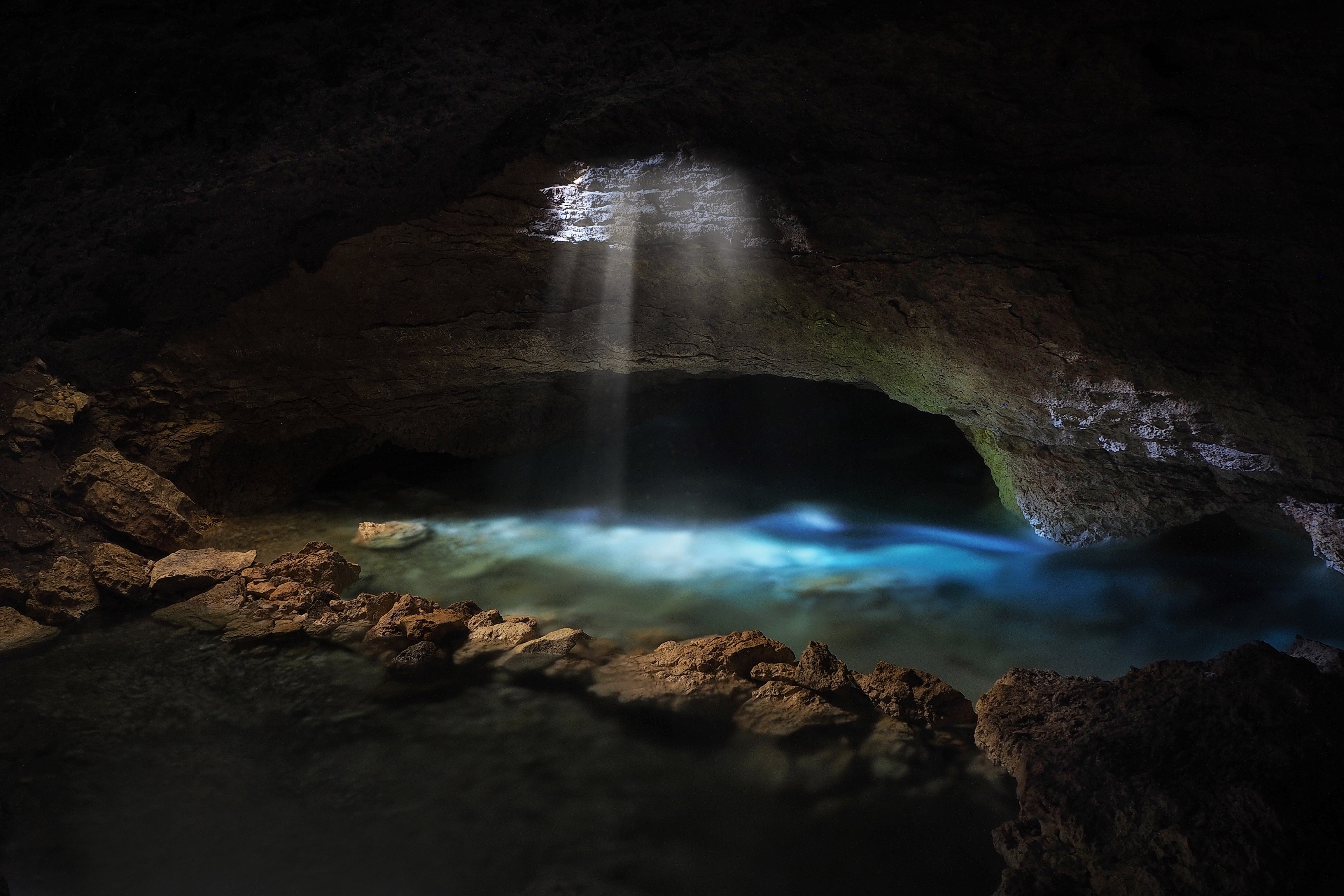 Part of Polangui river that flows in the blue water cave found in Quezon, Bukidnon named after its crystal clear bluish water. Cebuano: Ang kani nga langob nga naa sa Quezon, Bukidnon kay apil sa suba sa Polangui. Ang tubig nga anaa sa sulod kay perminti klaro ug asul ang kolor mao nang gi tawag siya nga langob nga asol ang tubig.